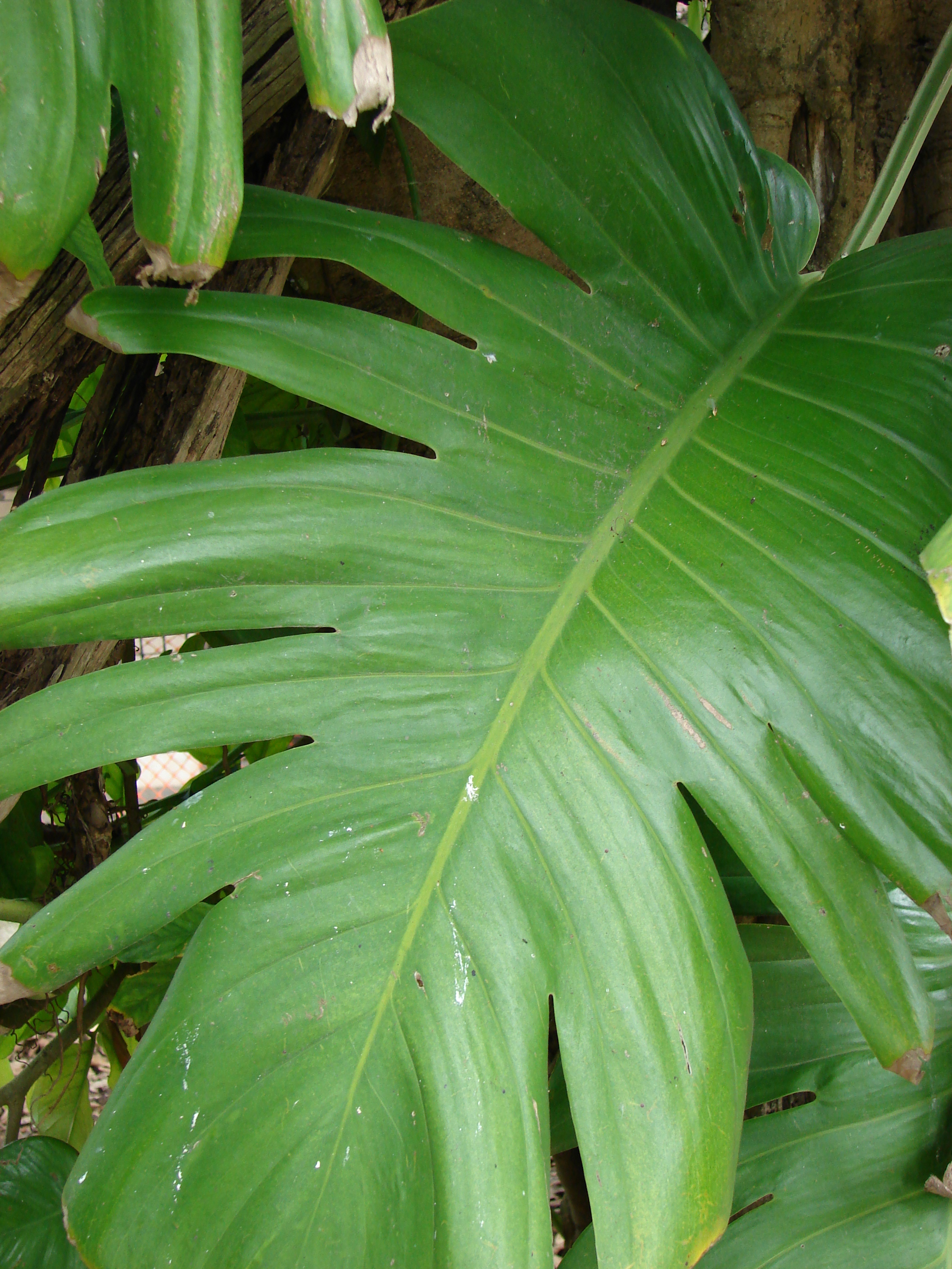 Epipremnum aureum (leaf). Location: Midway Atoll, Cable Company buildings Sand Island